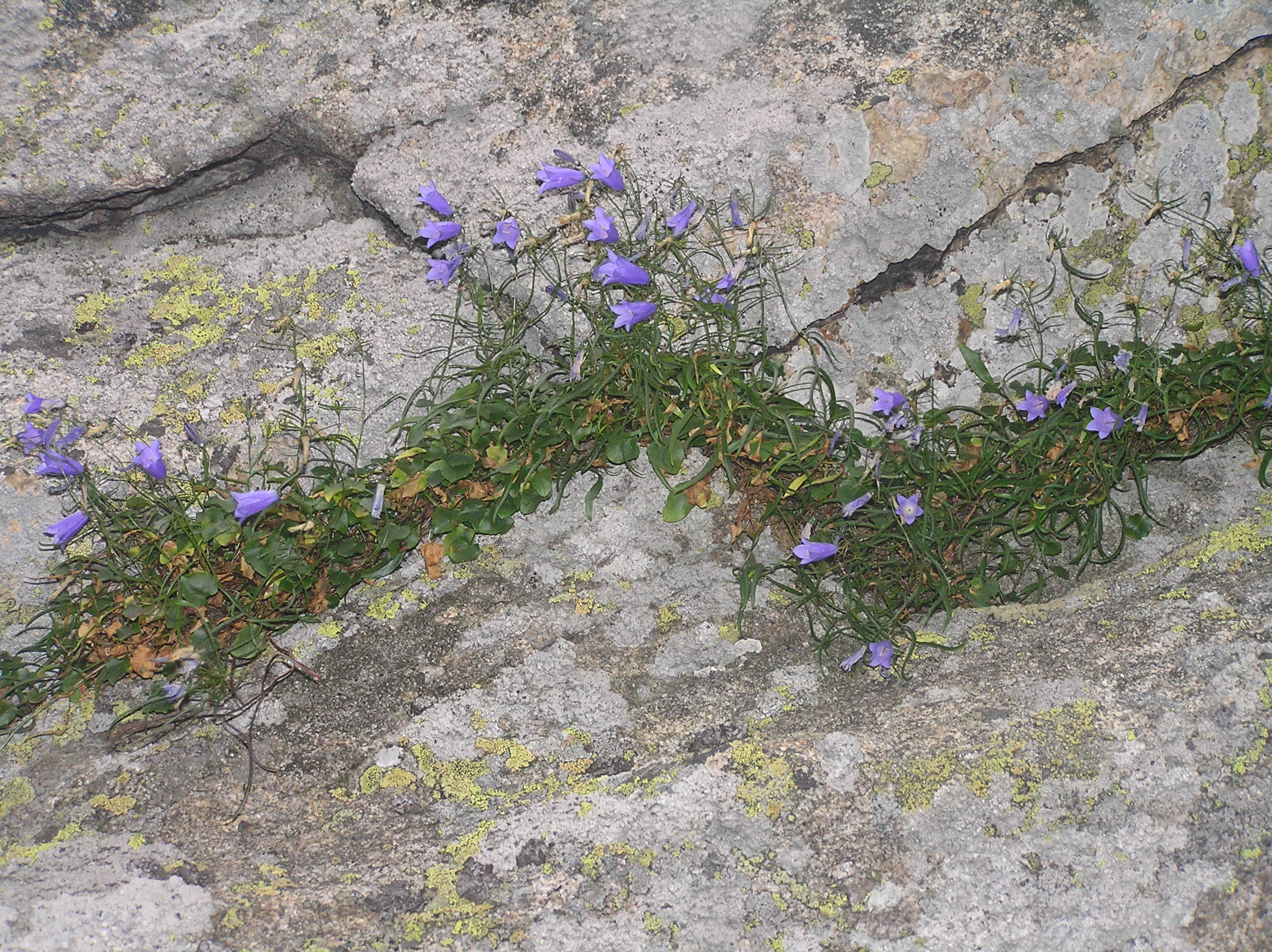 Campanula rotundifolia subsp. sudetica, Úpská jáma in the Krkonoše Mountains, Czech Republic